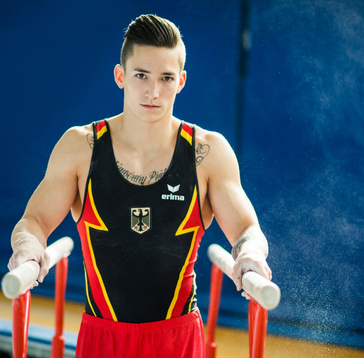 TFrom photoshooting of German athlete Marcel Nguyen